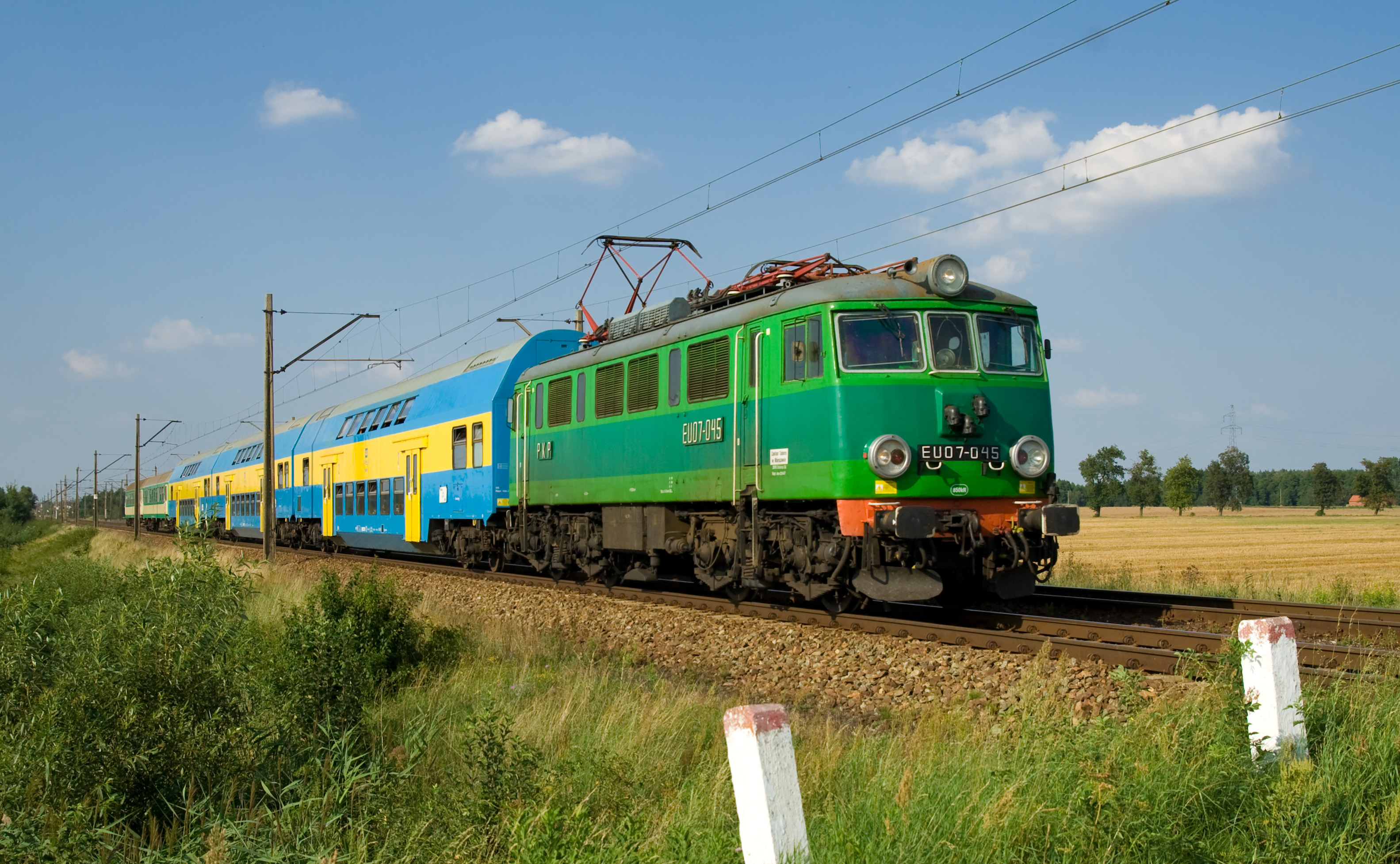 Polskie Koleje Państwowe (Polish national railways) class EU07 with a local train between Stare Bojanowo and Górka Duchowna, Poland. The double-deck coaches are "Görlitzer" built in Germany.